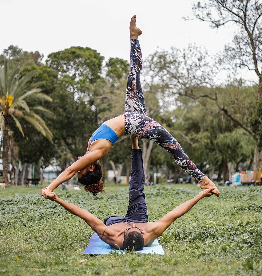 Bow & Arrow